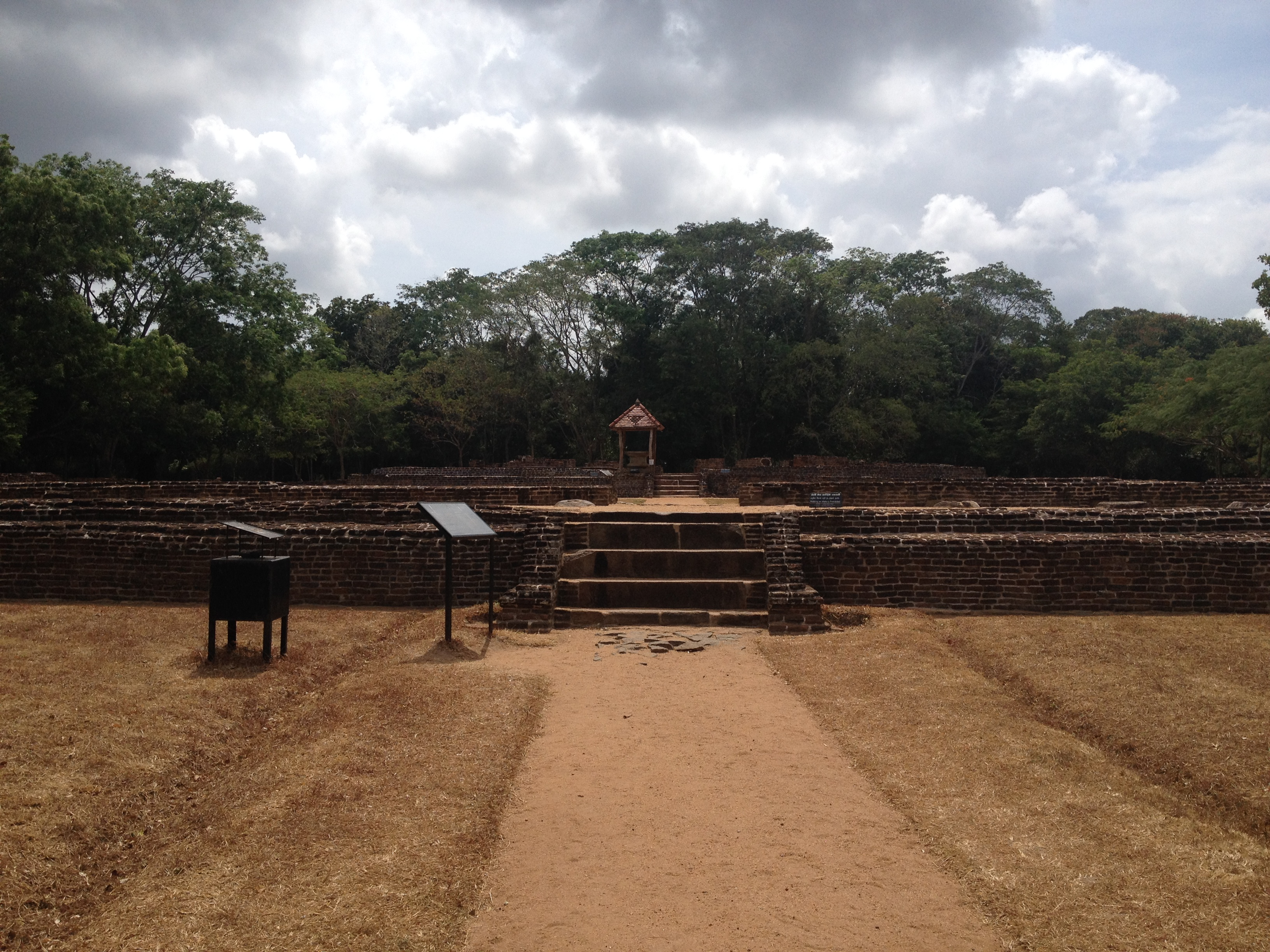 The royal palace of king Parakramabhahu at Panduwasnuwara archaeological site, Sri Lanka